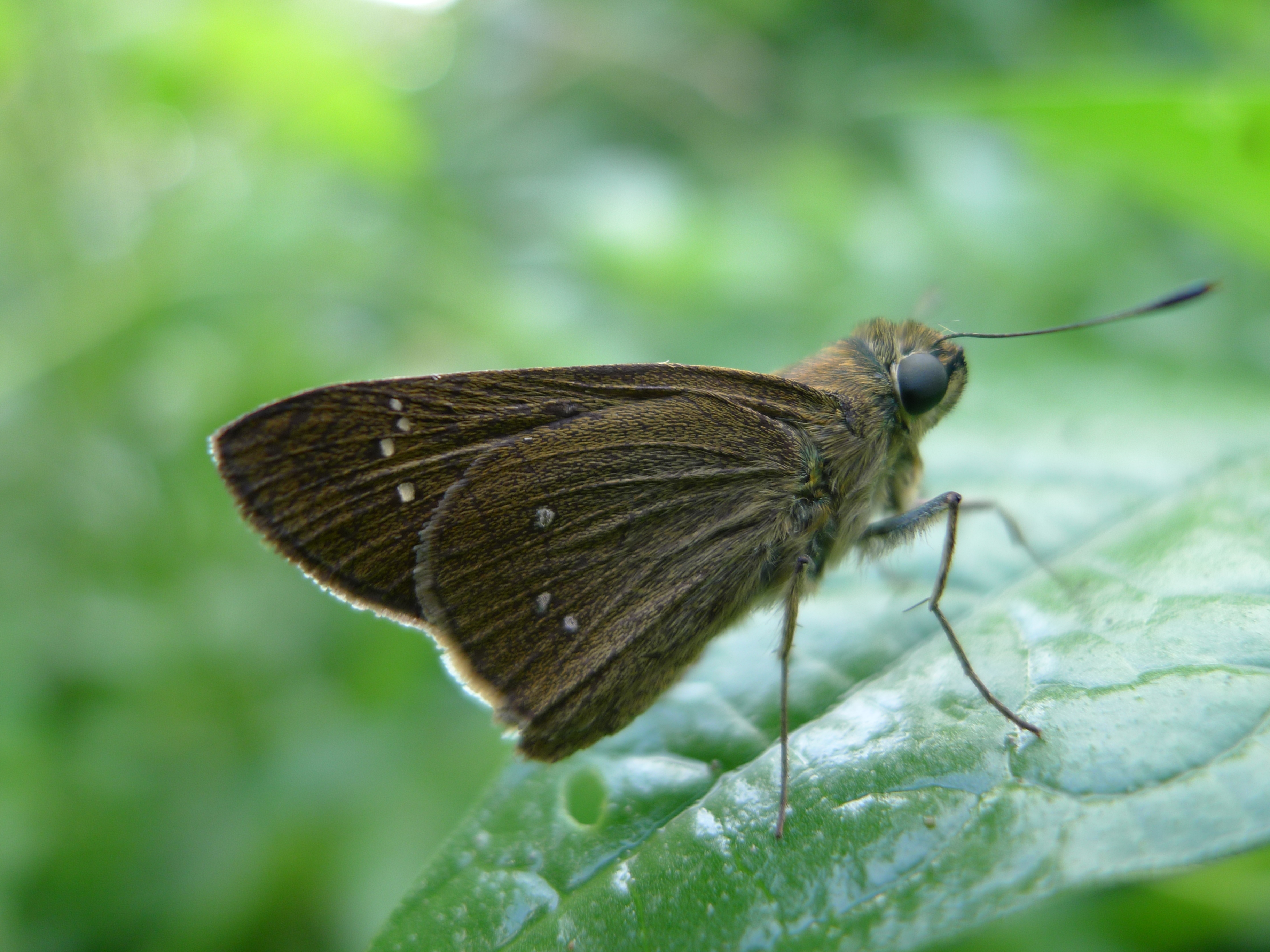 Borbo cinnara, or Rice swift, is a skipper butterfly. Poon Saan, Christmas Island, Australia, April 2011.